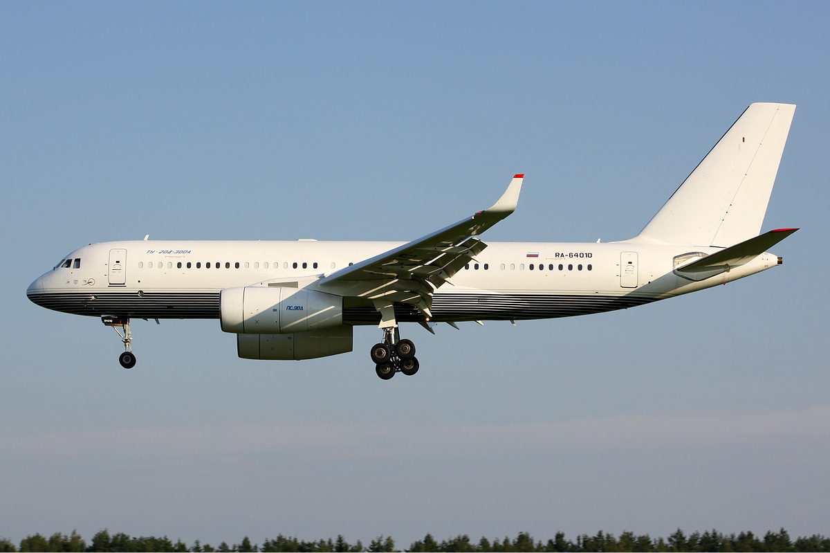 Business Aero Tupolev Tu-204-300A landing at Vnukovo International Airpor. This aircraft was the first VIP configured Tu-204, and as of 11/11/2011 is operated for VTB (a Russian bank).